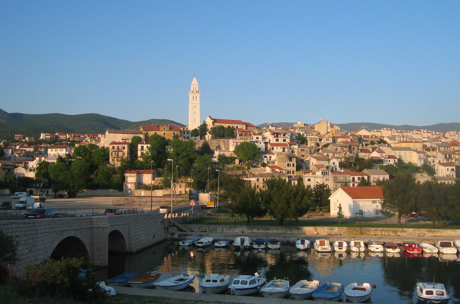 Novi Vinodolski, town in Croatia (north Adriatic)